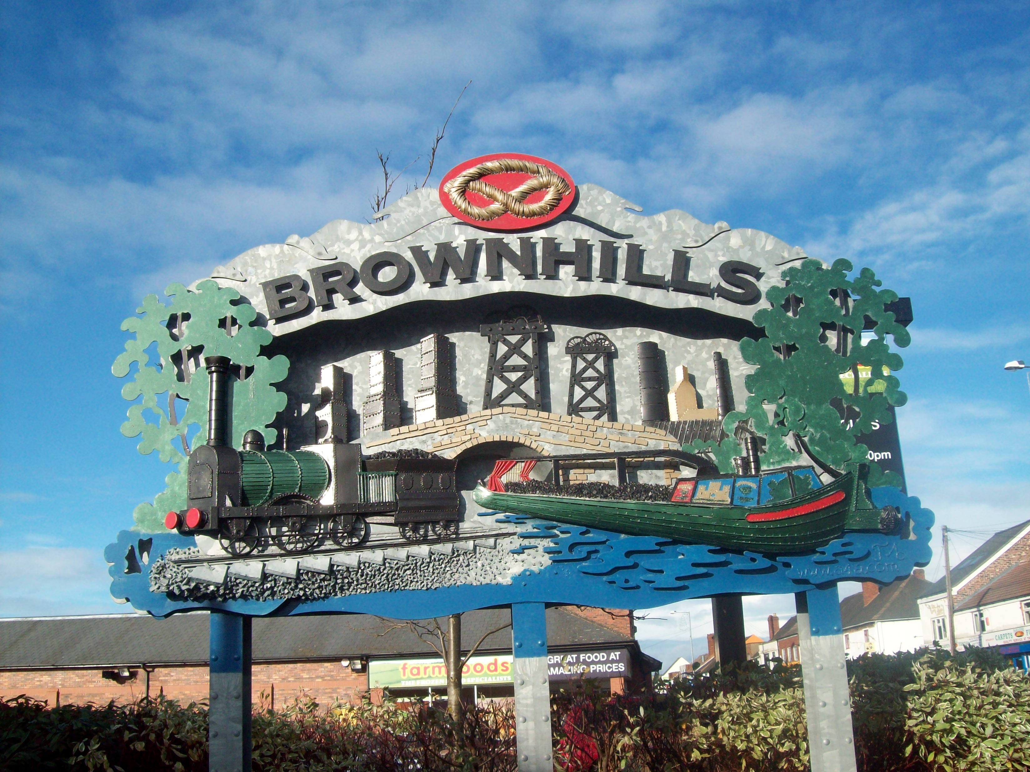 Photograph of the Brownhills Town Entrance feature sculpture by John McKenna